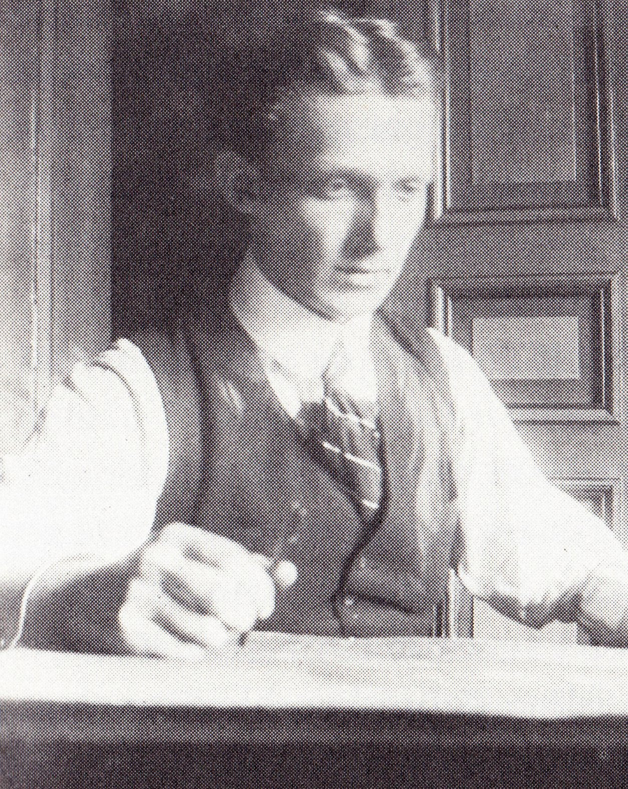 Trygve Gulbranssen by the drawing board.